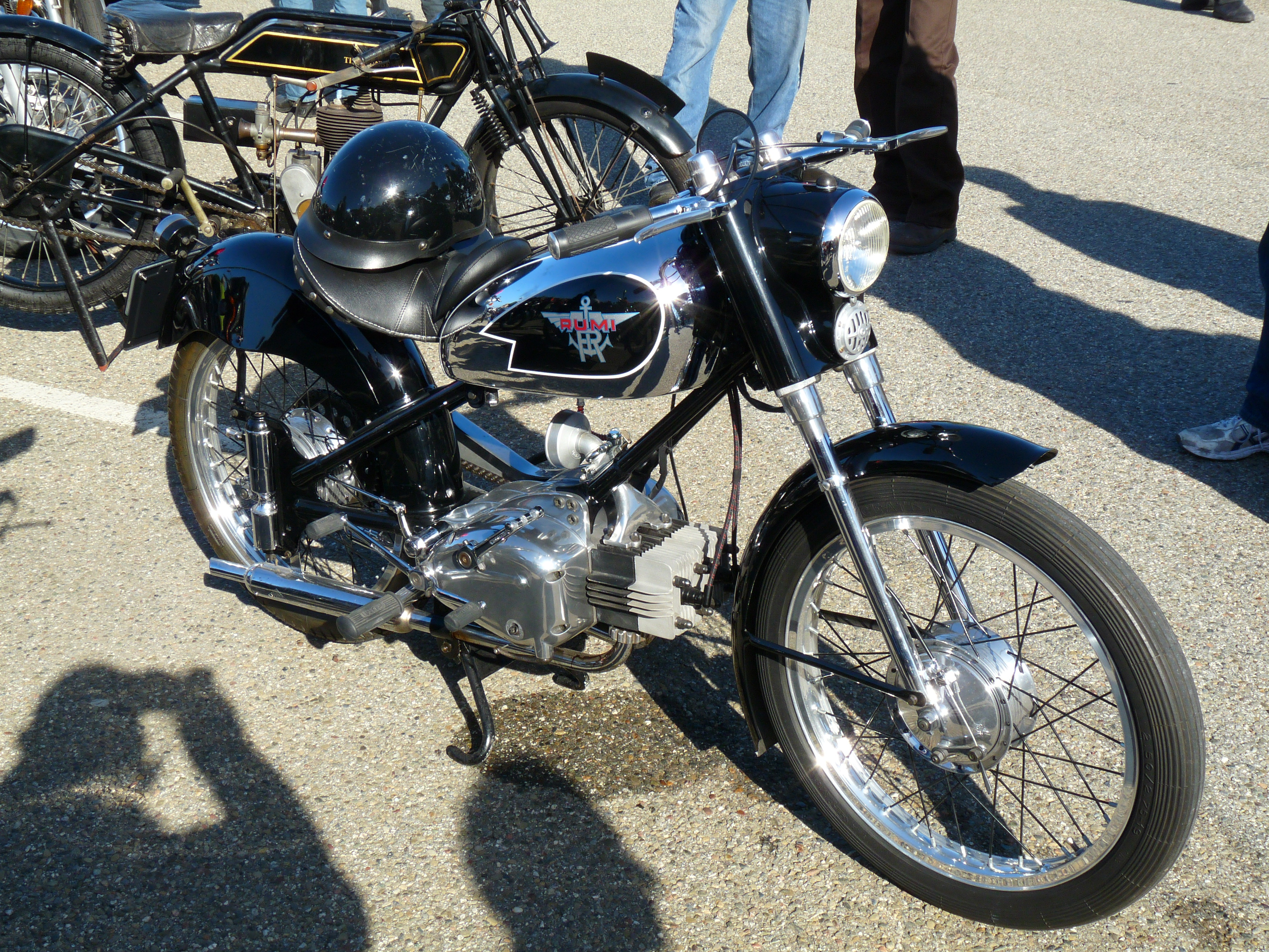 Rumi 125